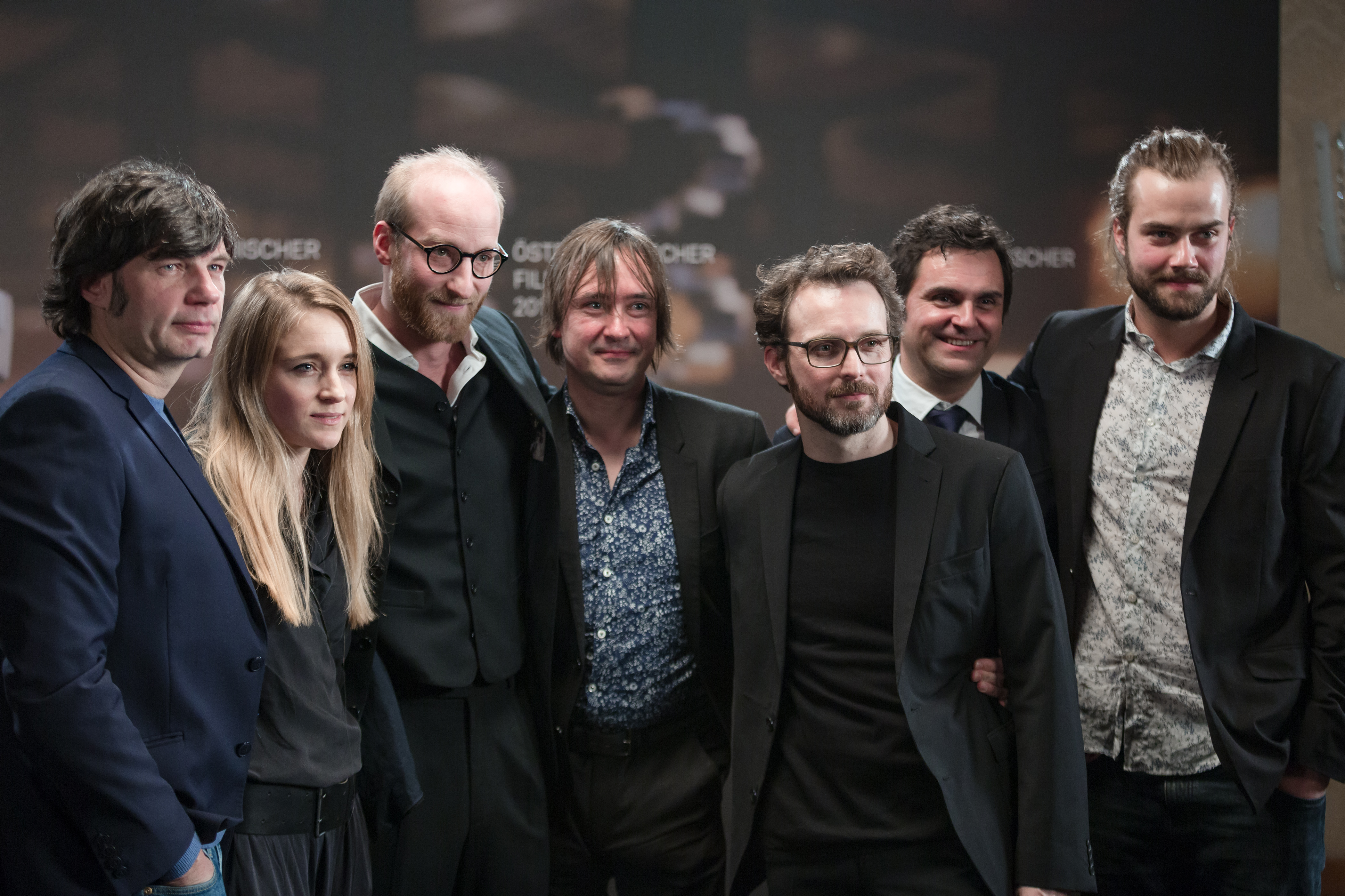 A part of the cast and crew of Tomcat, ltr.: Antonin Svoboda (producer), Joana Scrinzi (editor), Lukas Turtur (actor), Klaus Händl (director, writer) and Gerald Kerkletz (cinematographer) at the Austrian Film Awards 2017 (Rathaus, Vienna,Austria).